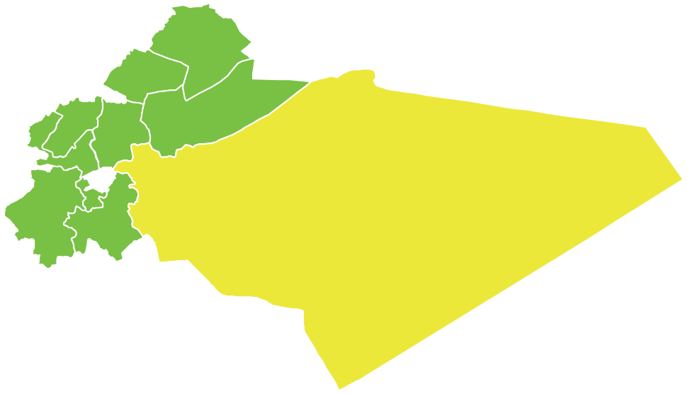 Duma District, Syrian governorate of Rif Dimashq.